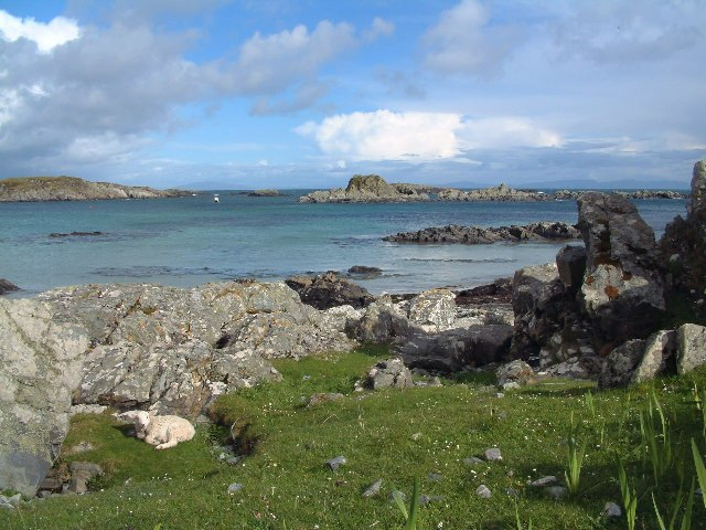 Port Uisken, Mull. Coastline at Uisken on the south side of the Ross of Mull